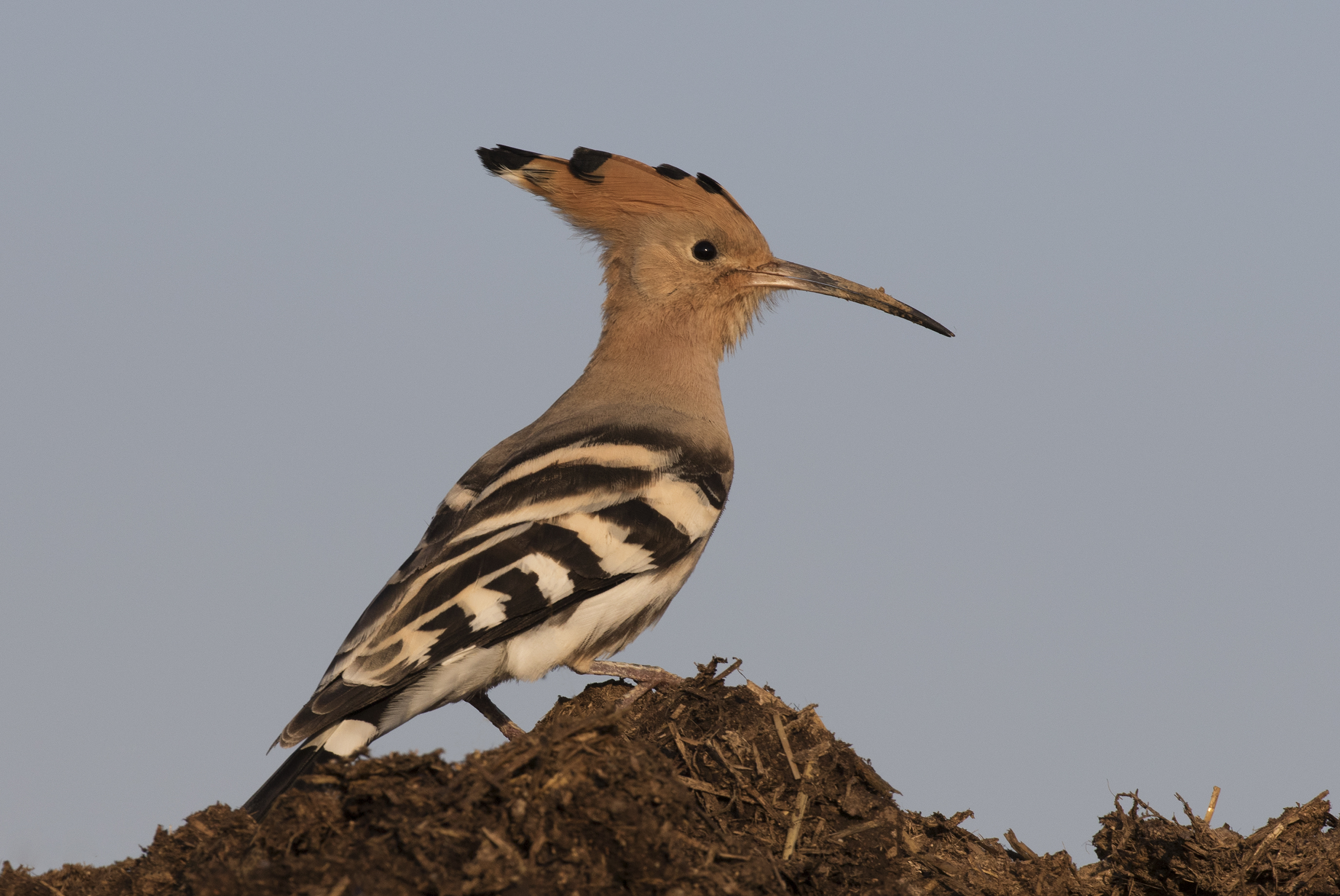 A common hoopoe (Upupa epops). Balcalı, Sarıçam - Adana, Turkey.